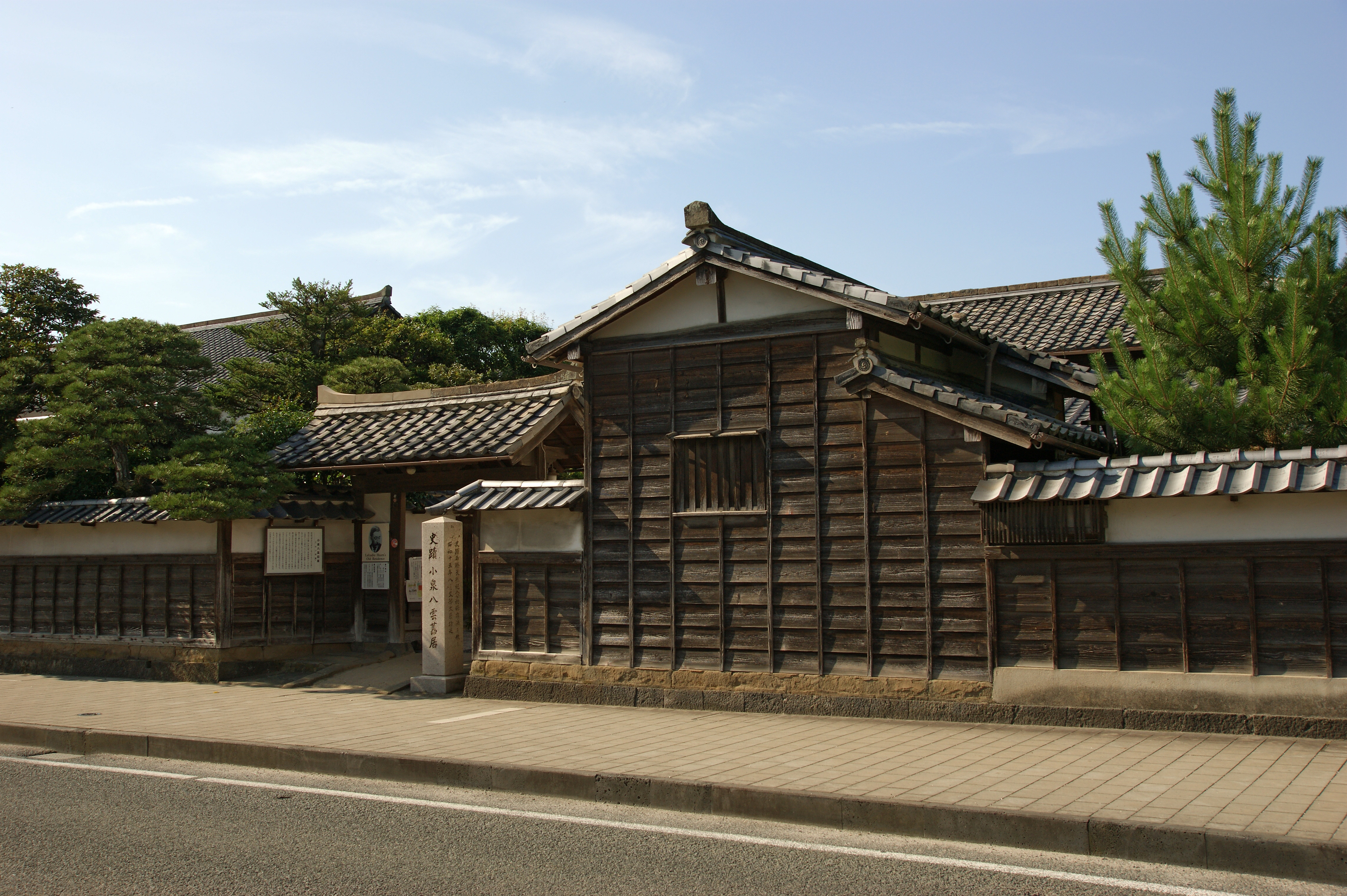 Shiominawate in Matsue, Shimane prefecture, Japan